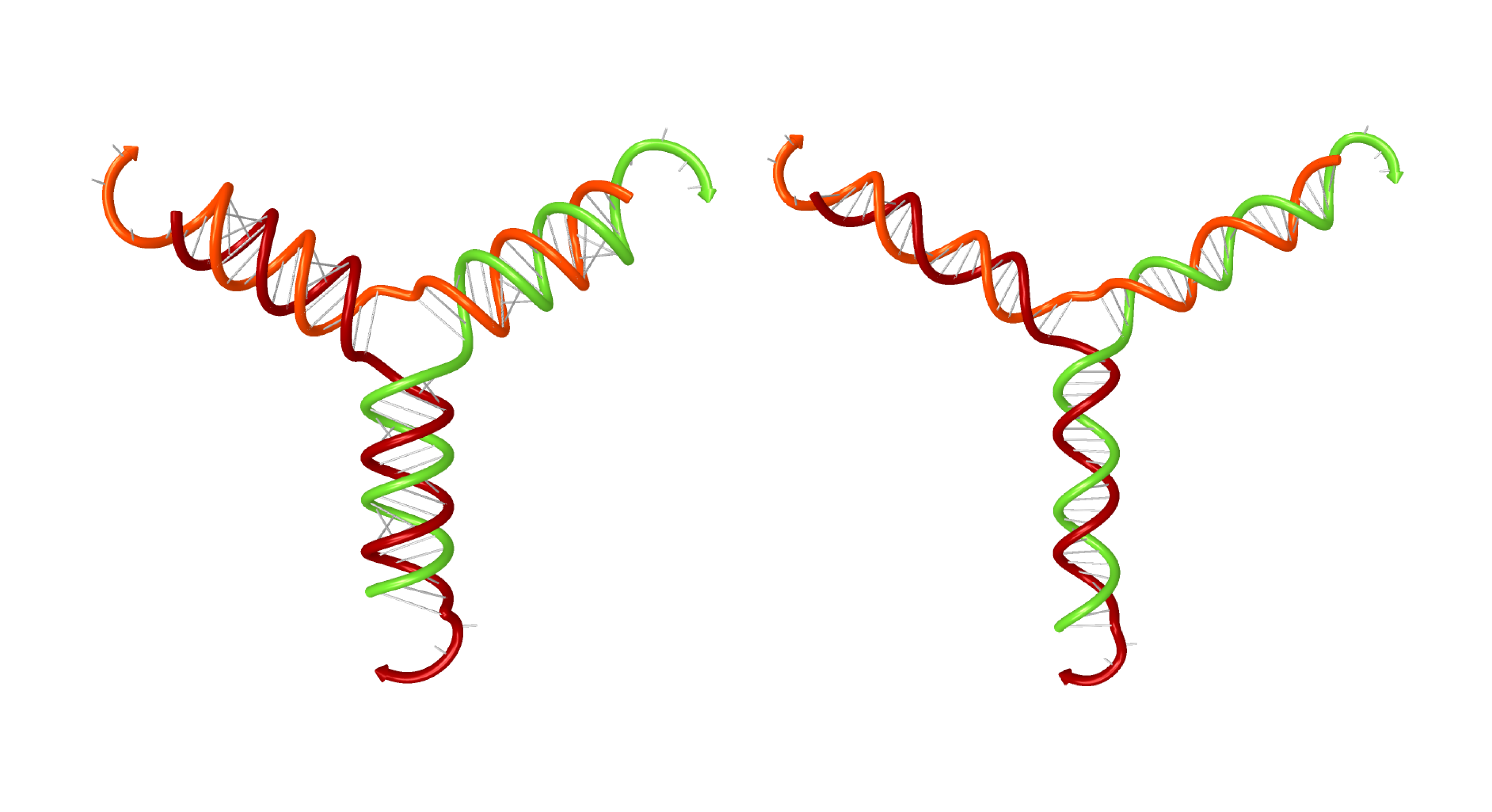 An example picture from the NUPACK Utilities website.